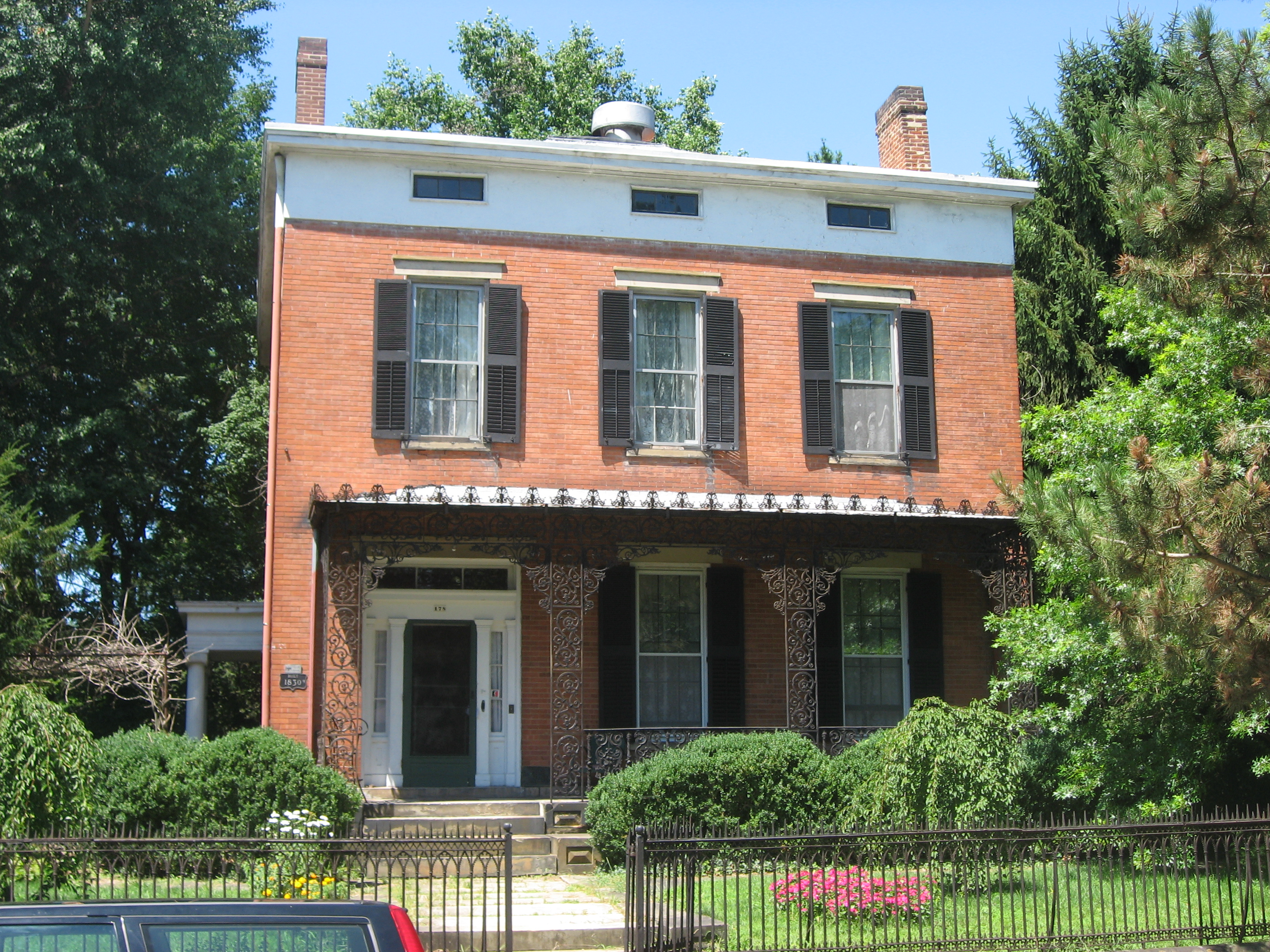 Front of the Vanmeter Church Street House, located at 178 Church Street on the western side of Chillicothe, Ohio, United States. Built in 1830, it is listed on the National Register of Historic Places.